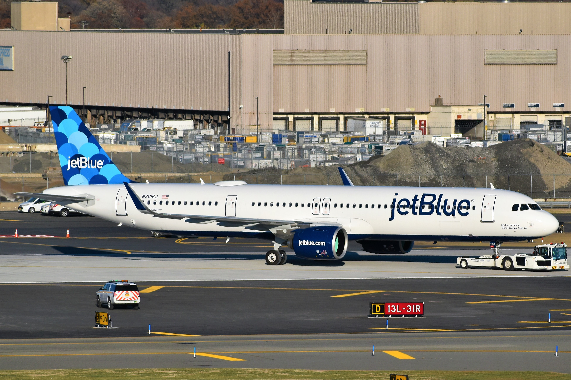 A JetBlue Airways Airbus A321neo is being towed to its gate.